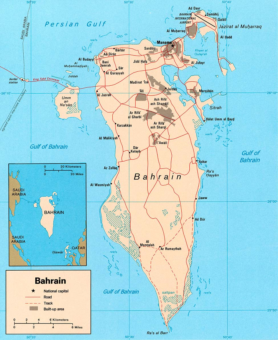 Bahrain (Political) 2003